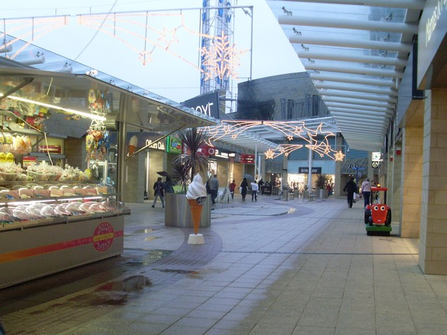 Glasgow Fort shopping precinct With the Christmas lights up and lit in mid-November.